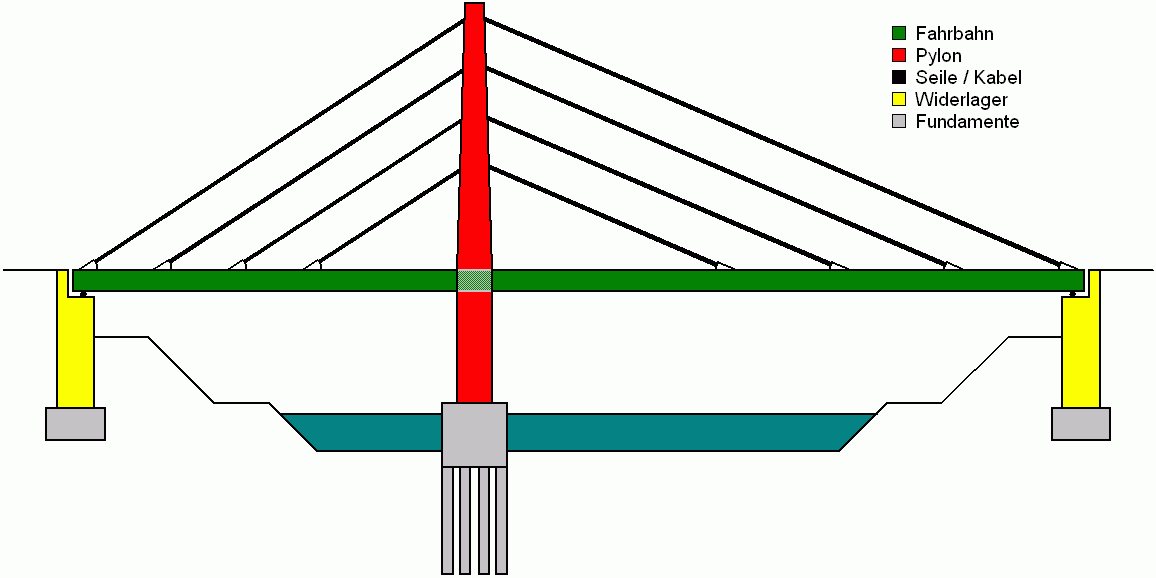 a pattern of an cable-stayed bridge, description in german